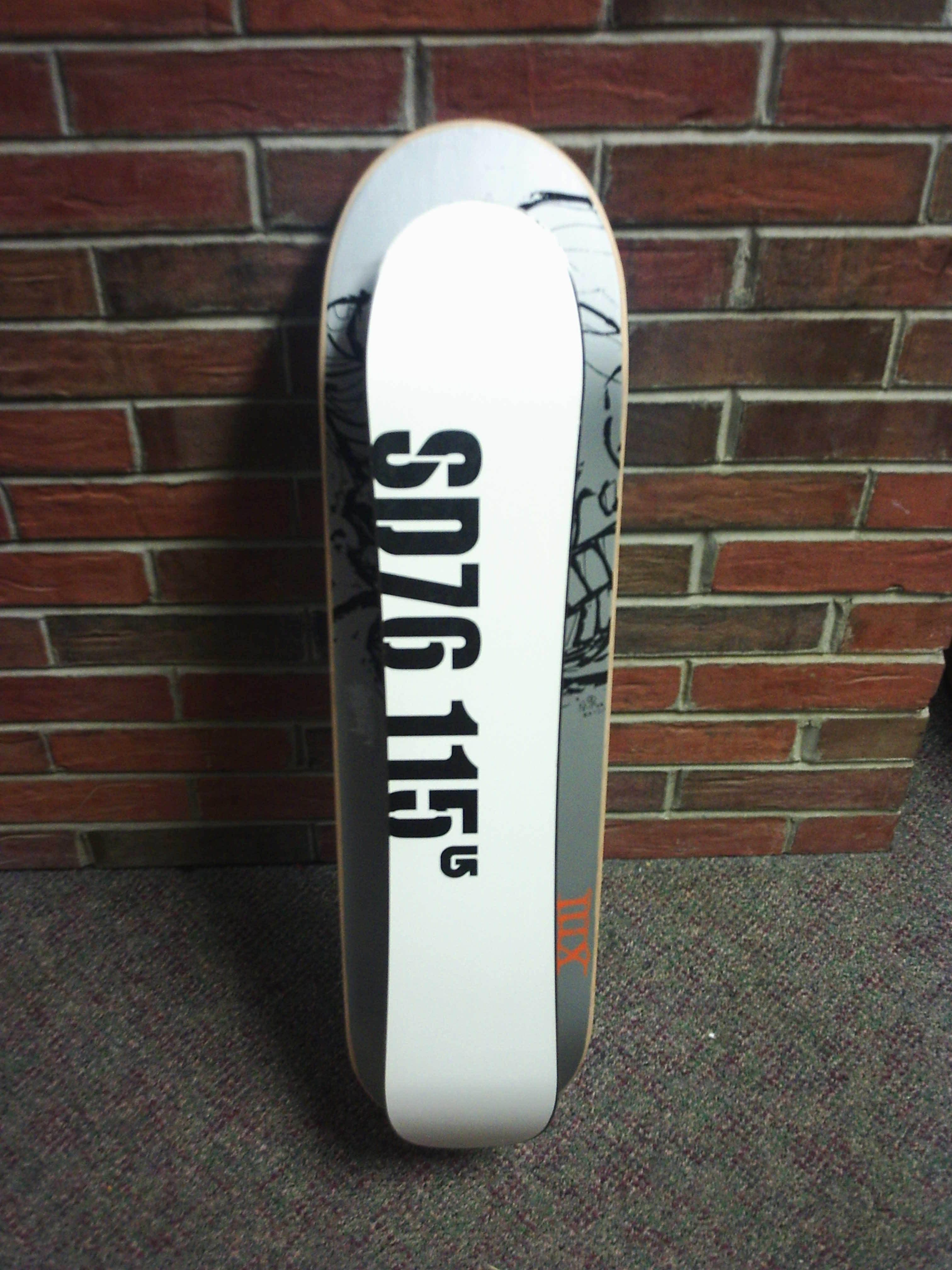 Snowdeck The Burton SD76 115 Snowdeck.